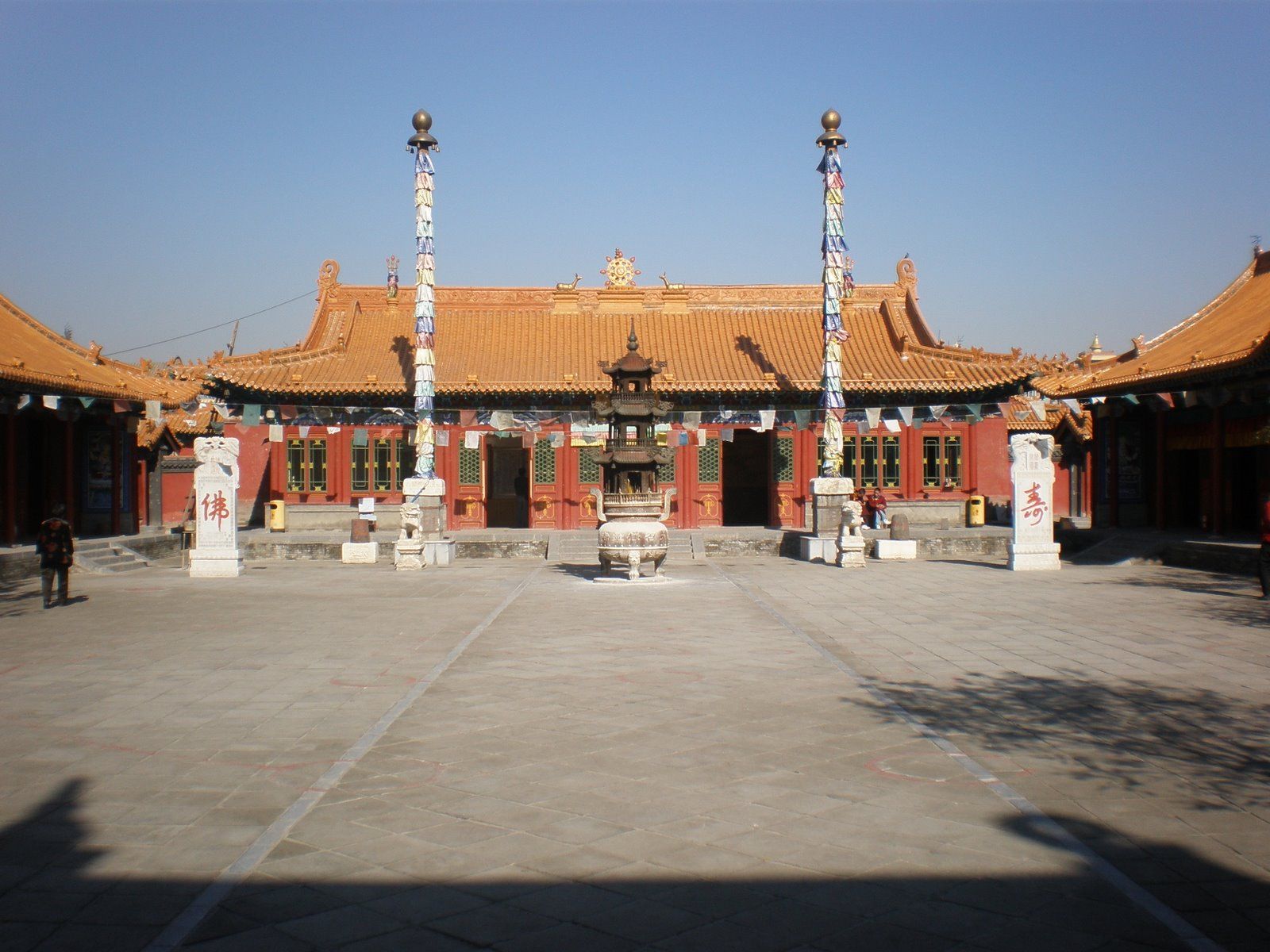 Da Zhao Temple (Chinese: 大召寺; pinyin: Dàzhào Sì) is a Buddhist monastery in the city of Hohhot in Inner Mongolia in north-west China. It is the largest temple in the city and is located in a narrow alley west of Tongdao Nan Jie.